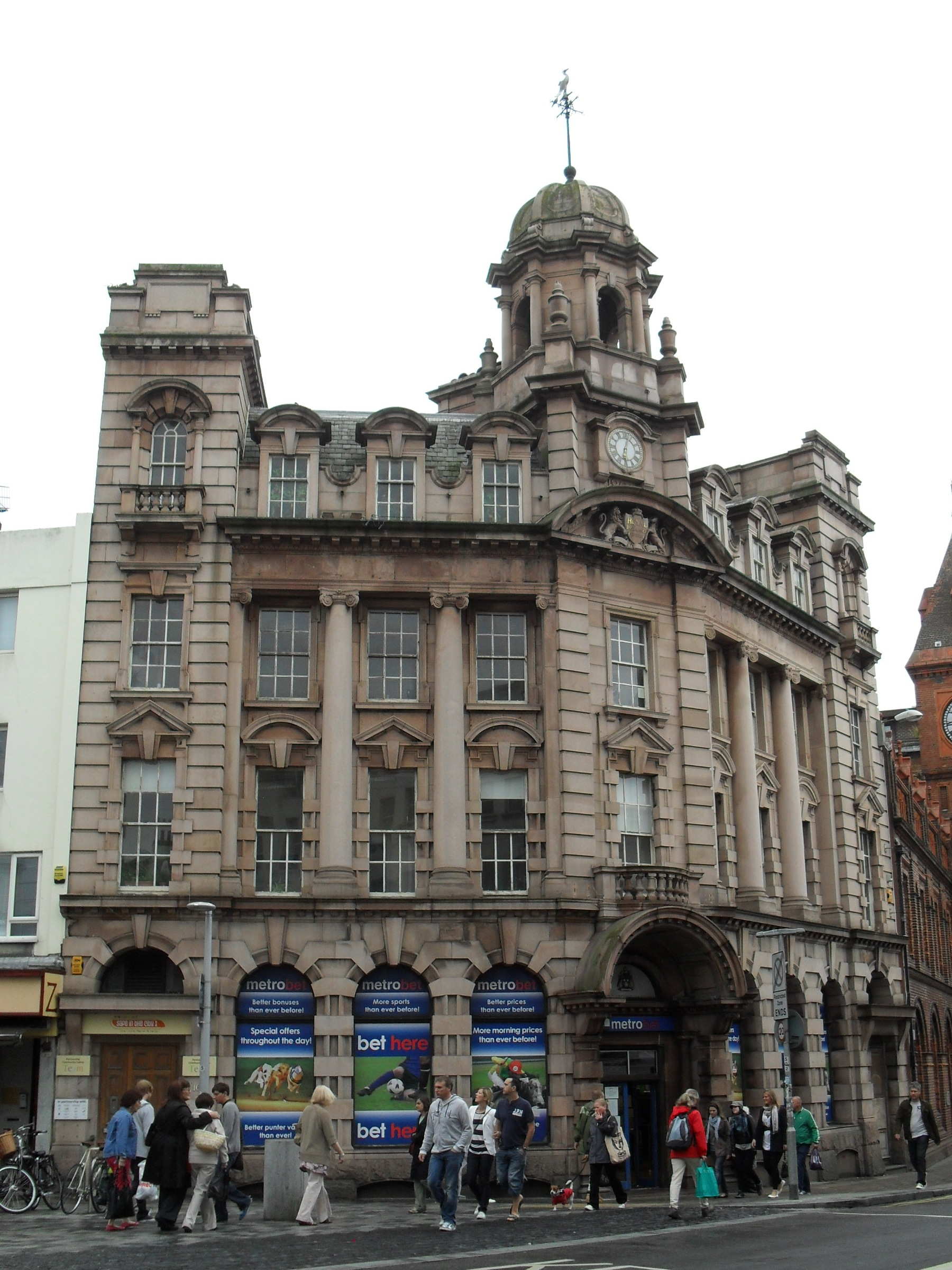 Former Royal Assurance Company offices, 163 North Street, Brighton, City of Brighton and Hove, England. Designed in the Edwardian Baroque style by Clayton & Black in 1904. Listed at Grade II by English Heritage (NHLE Code 1380622)